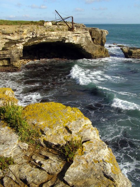 Sea cave, near Cave Hole This large sea cave is on the Portland coast between Butts Quarries and Longstone Ope Quarries. The Cave Hole blowhole is just to the north of here. An old wooden crane sits on top of the cliff.